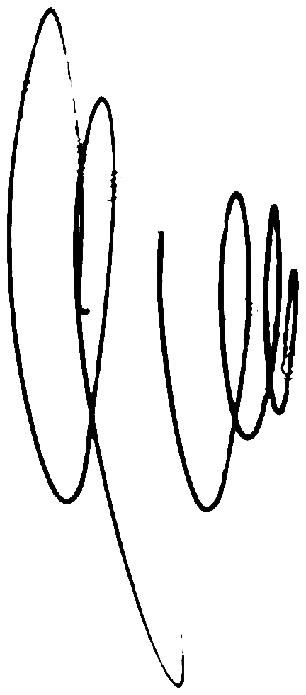 Signature of Guy Verhofstadt.